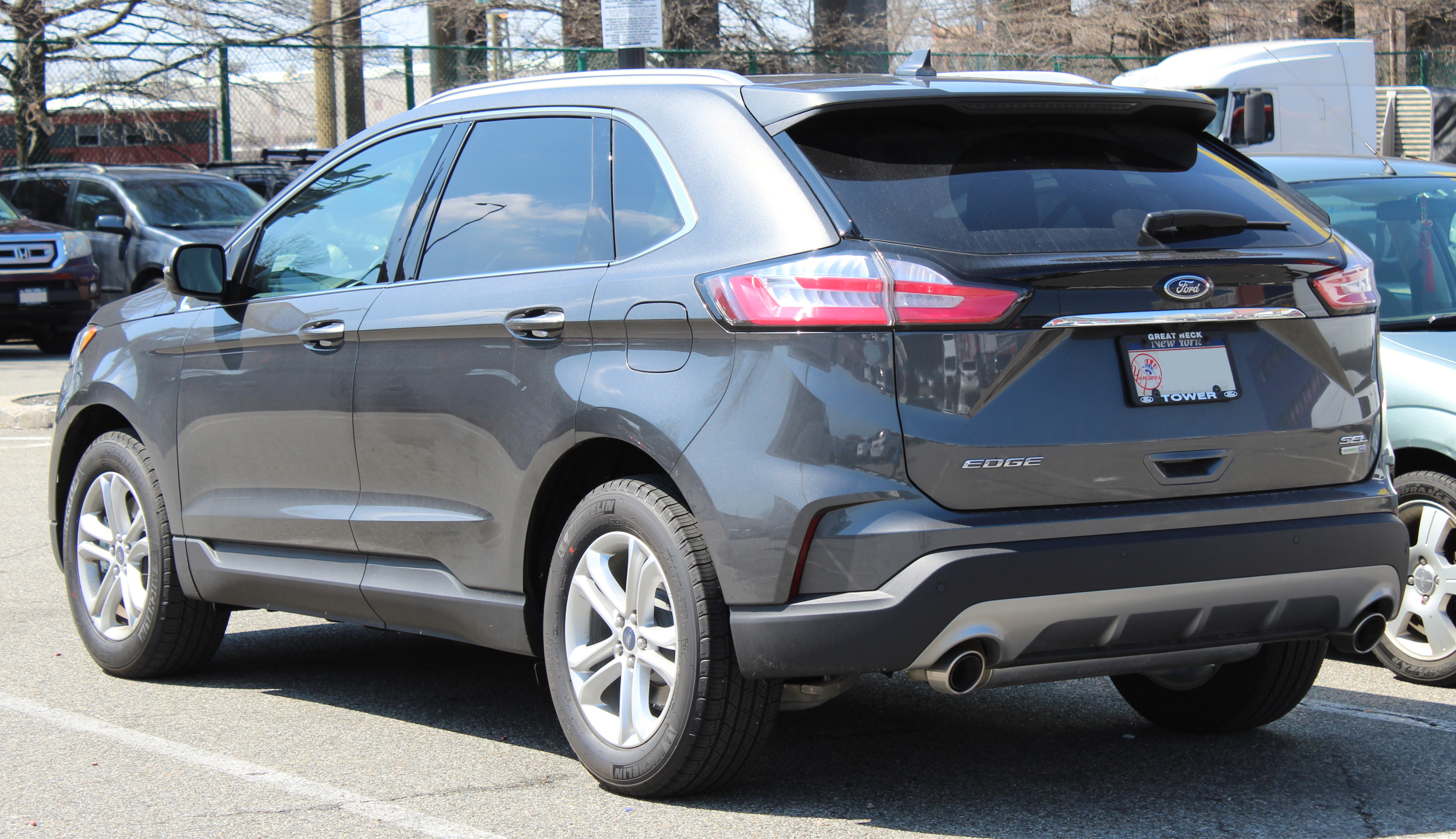 A 2019 Ford Edge photographed in Flushing, Queens, New York, USA